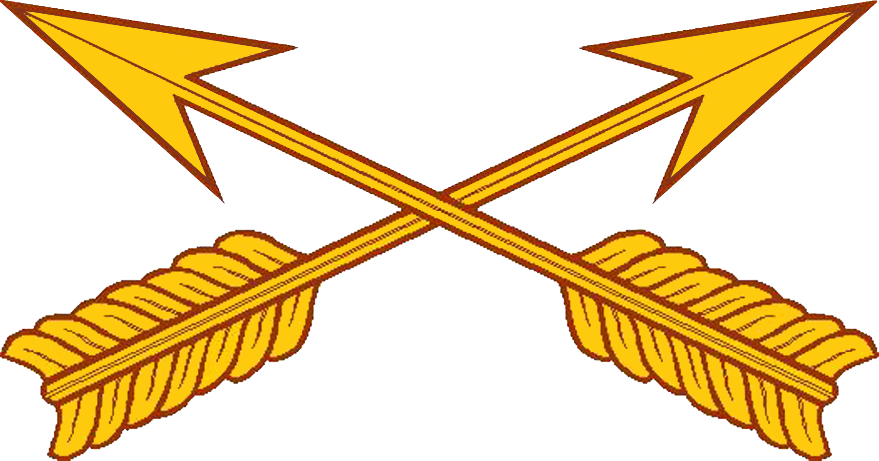 United States Army Special Forces Branch Insignia collar brass. Made with Photoshop.